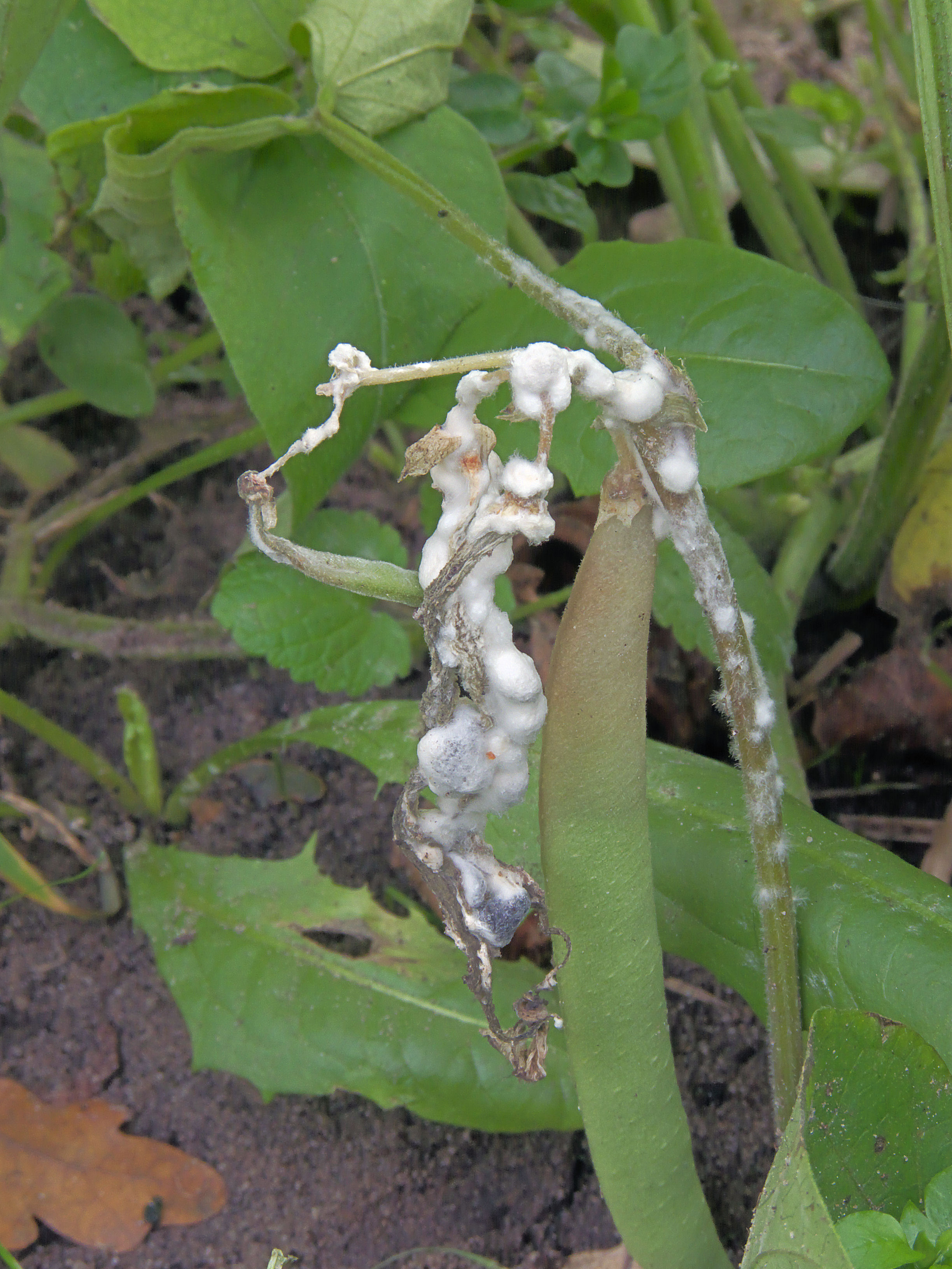 Sclerotinia sclerotiorum at Phaseolus vulgaris bushbean